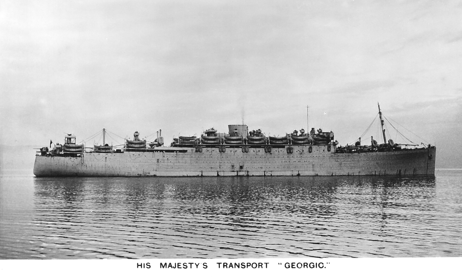 MV Georgic in service as a troopship after rebuilding, likely mid/late 1940s.